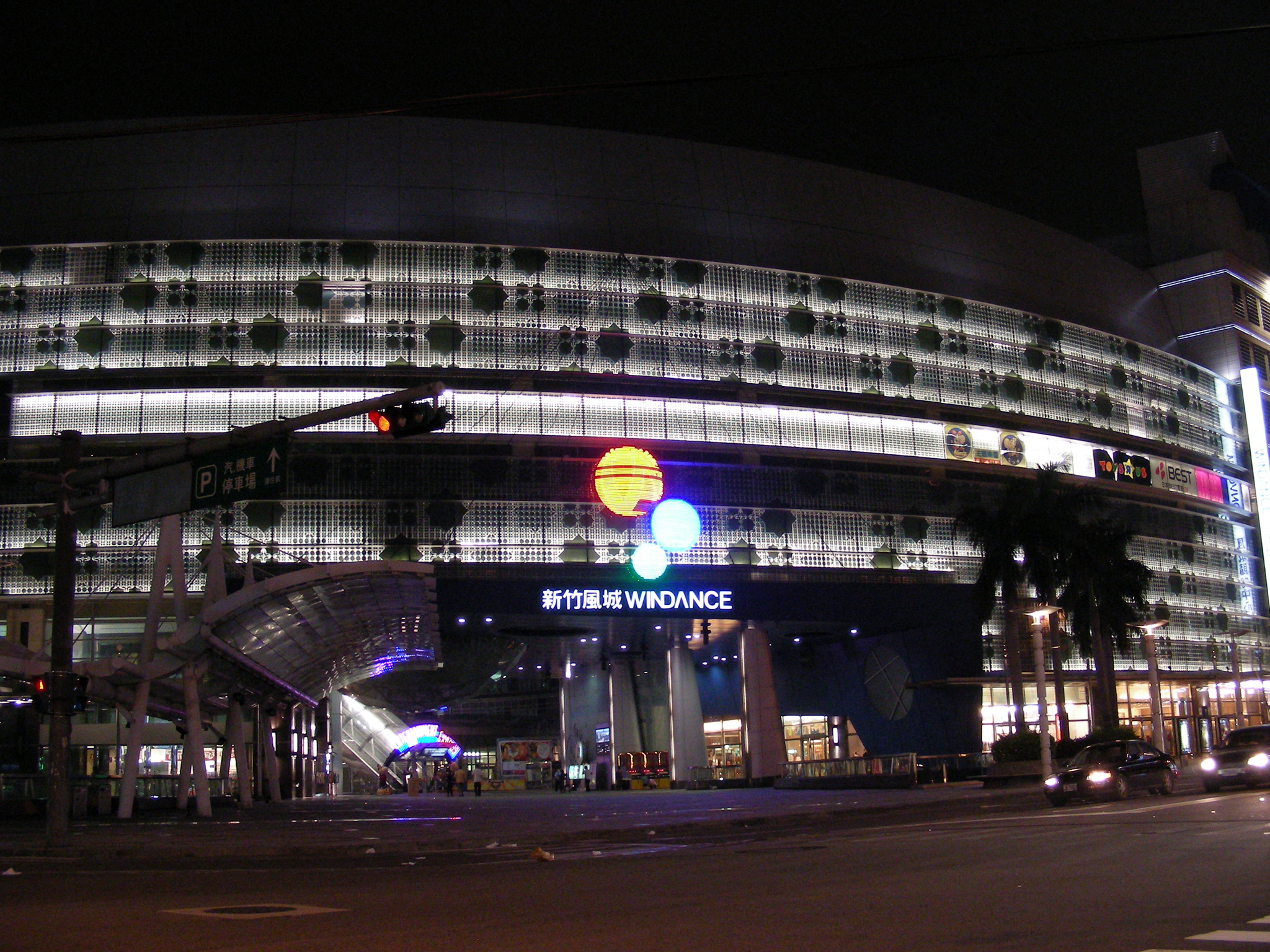 The "WINDANCE" shopping mall in Hsinchu City, Taiwan.